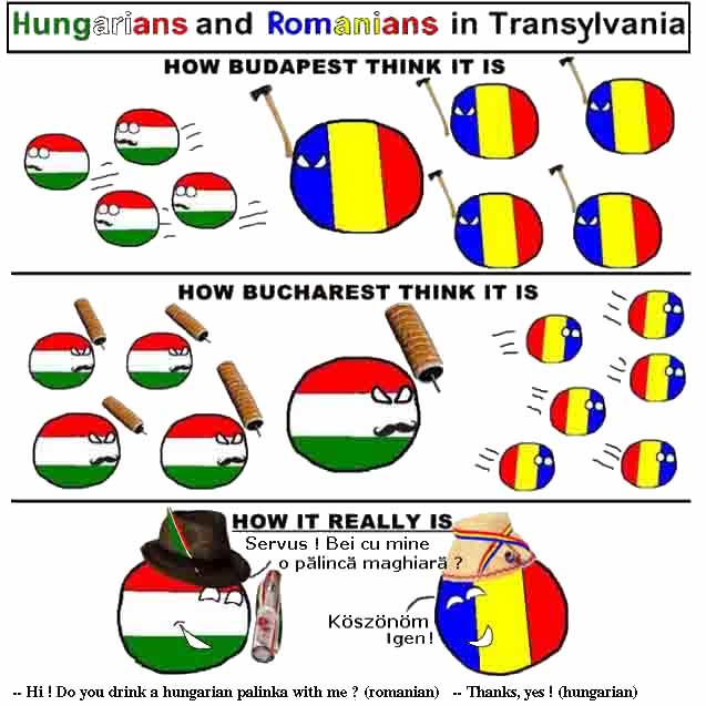 Drawing (Polandball style) by S.I.Cepleanu derived from an idea of the pupils of the "Şcoala Generală nr. 2" in Brașov, 6-th class, september 2013.